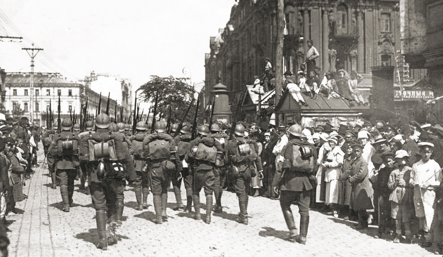 Polish infantry entering Kiev during Polsih-Soviet war, 7th of May 1920